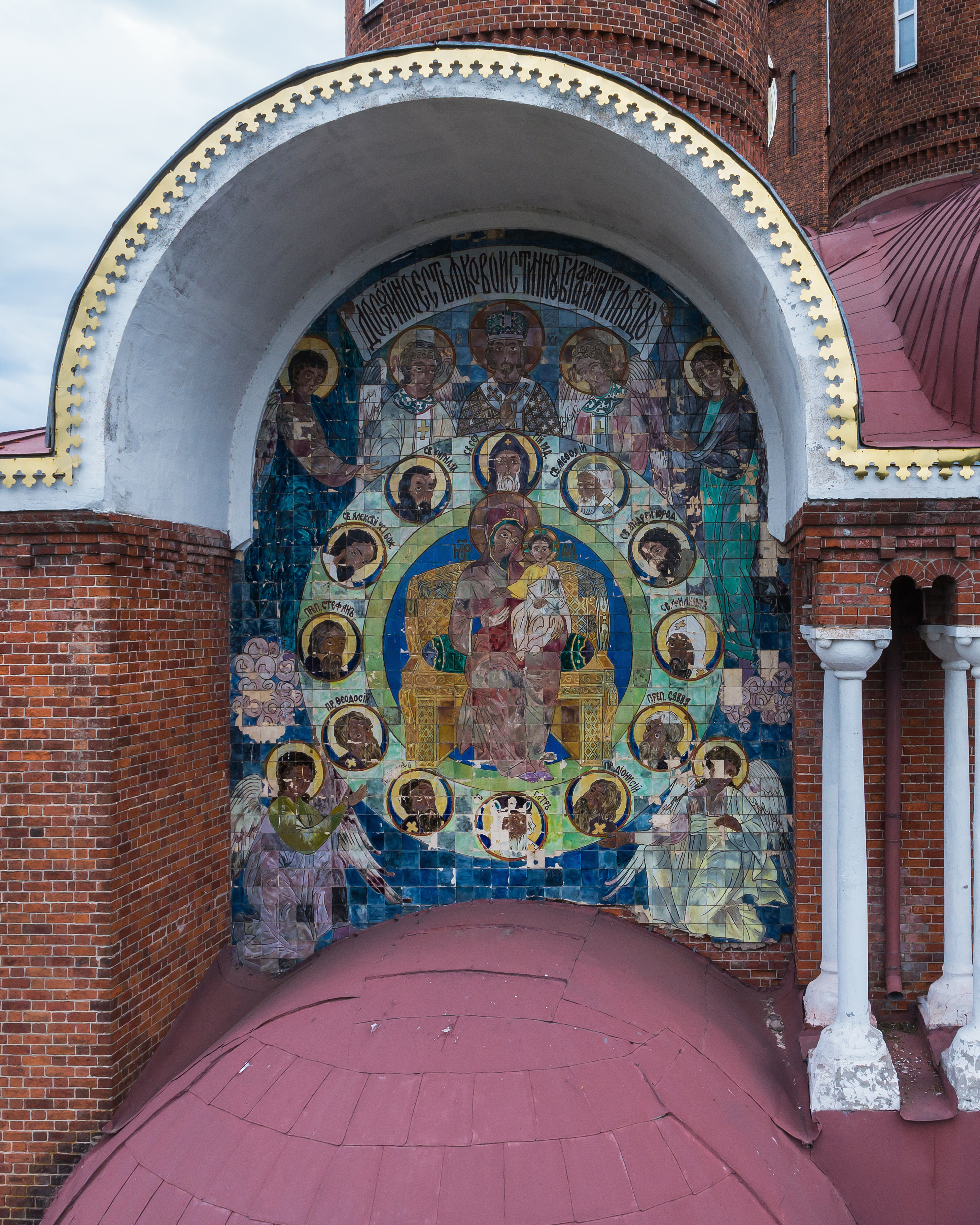 Aerial photo of the Resurrection Church in Vichuga, Ivanovo Oblast, Russia. The picture shows the maiolica at the east facade.